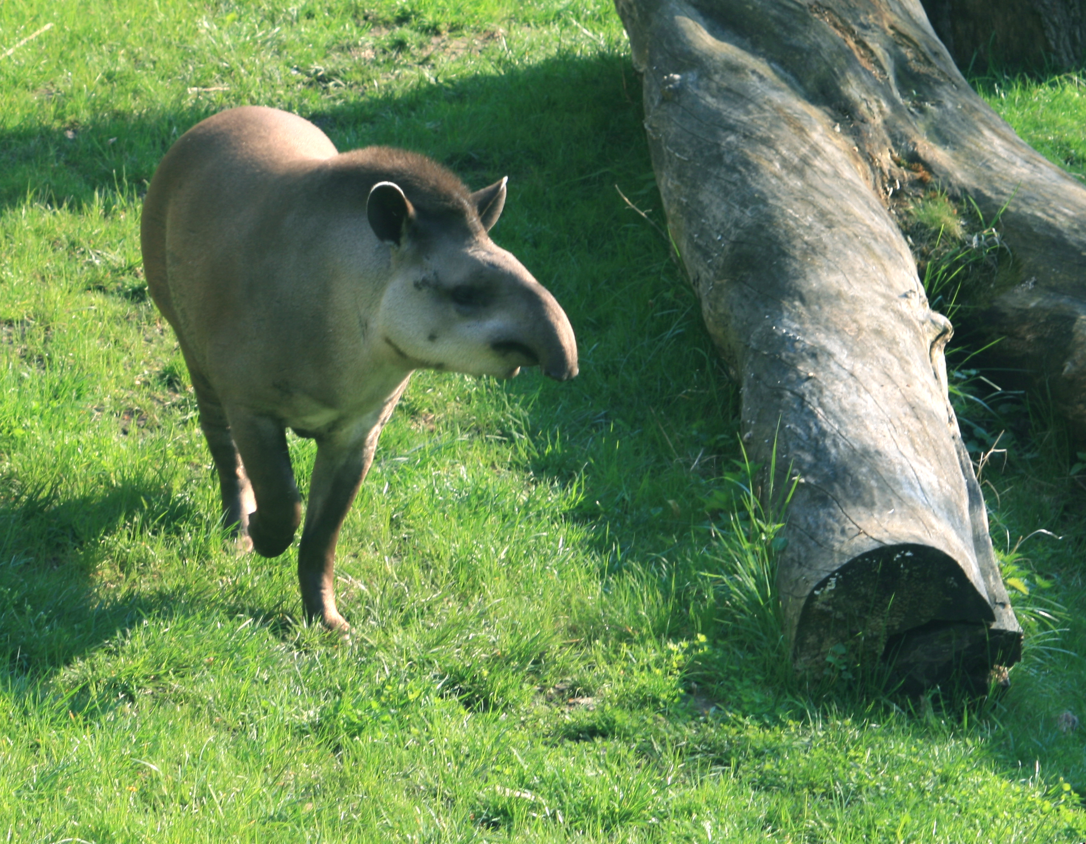 Brazilian Tapir, Tapirus terrestris in ZOO Praha, Czech Republic